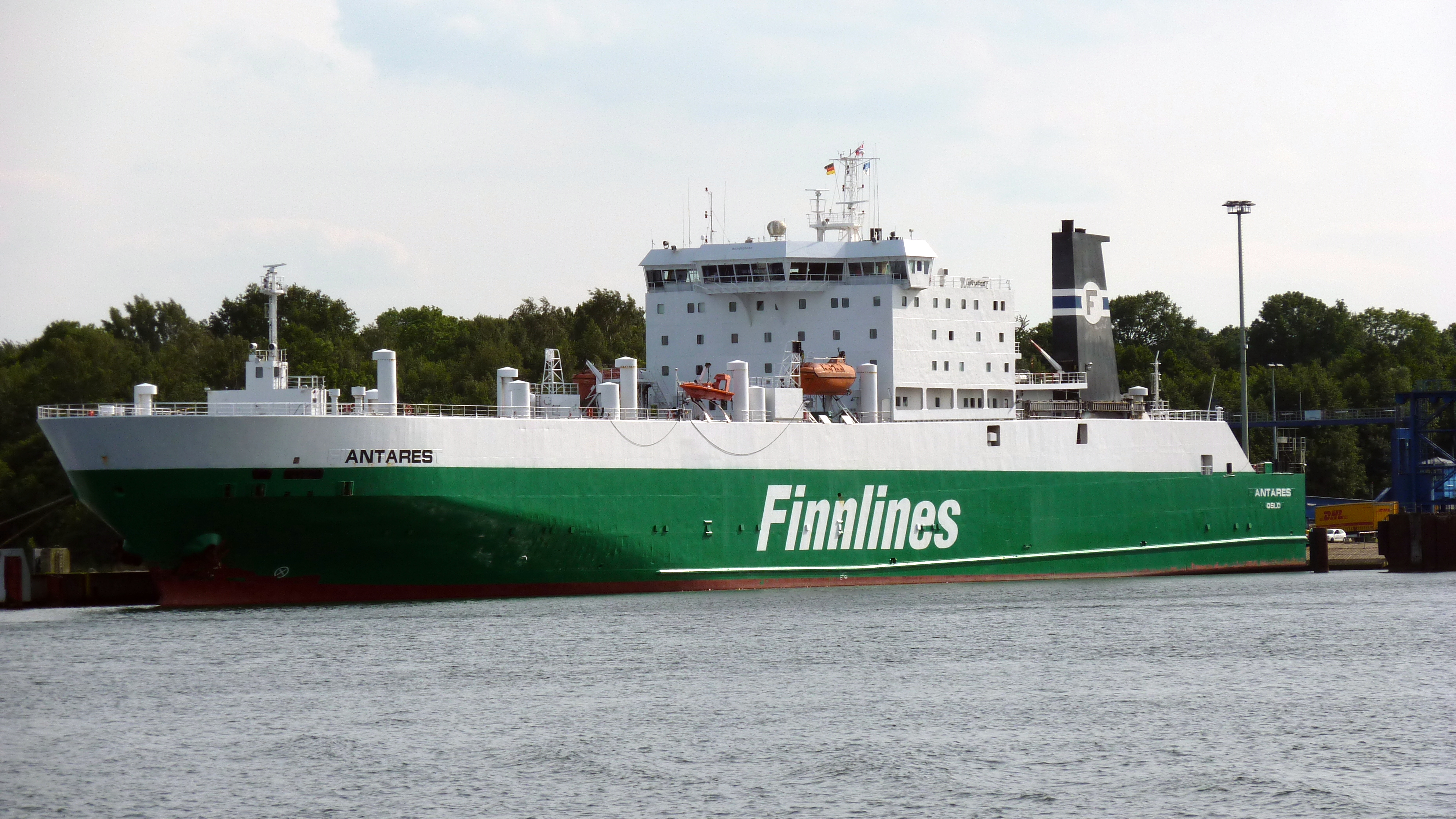 MS Antares in Travemünde